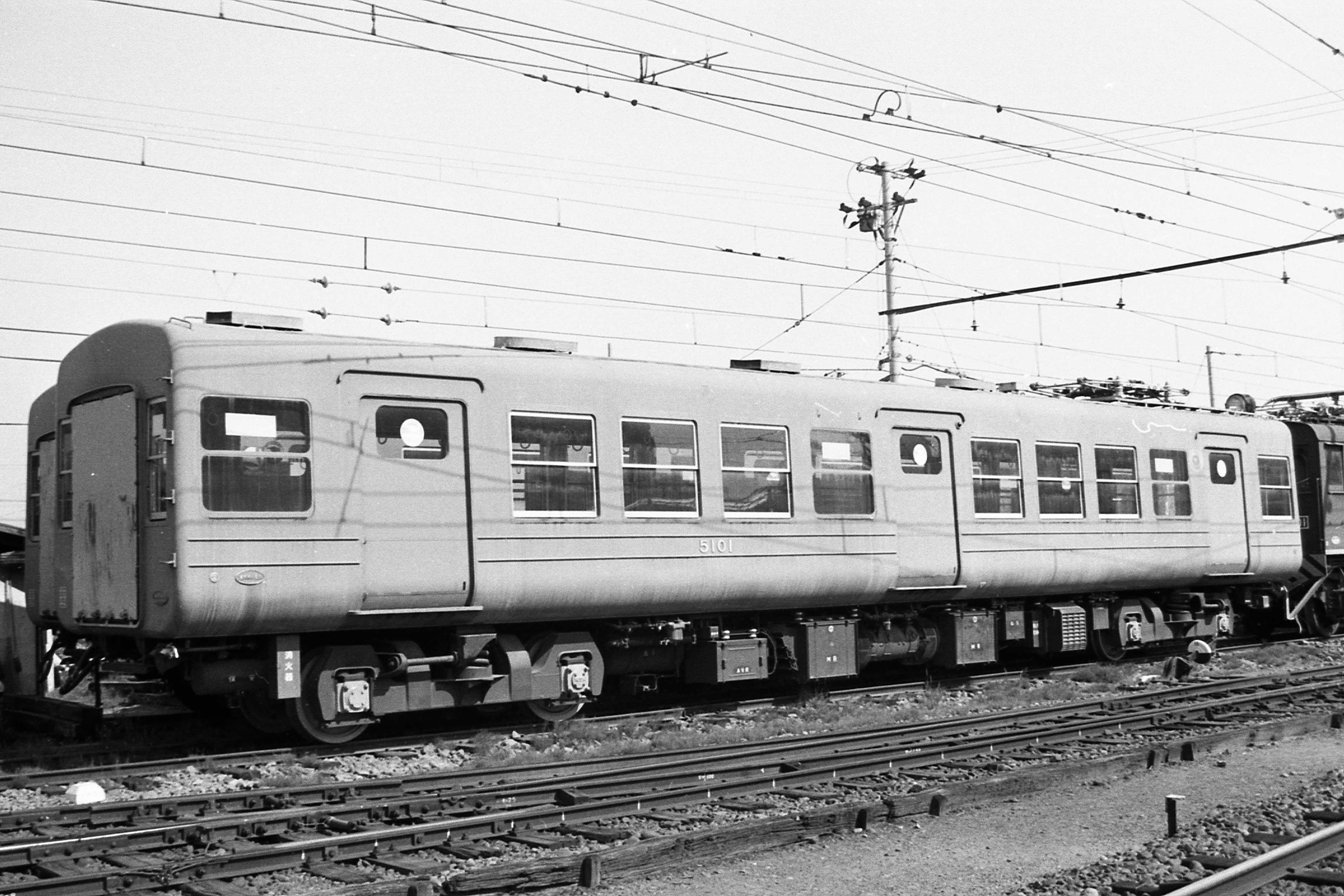 Tokyu Deha 5101 at Nagaden Suzaka station. This car sold to Nagaden as a spare parts of 2500 series.